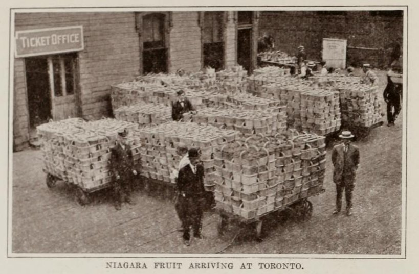 Fruit from the Niagara region arriving at Toronto for distribution. ca. 1914. Toronto, Ontario, Canada.